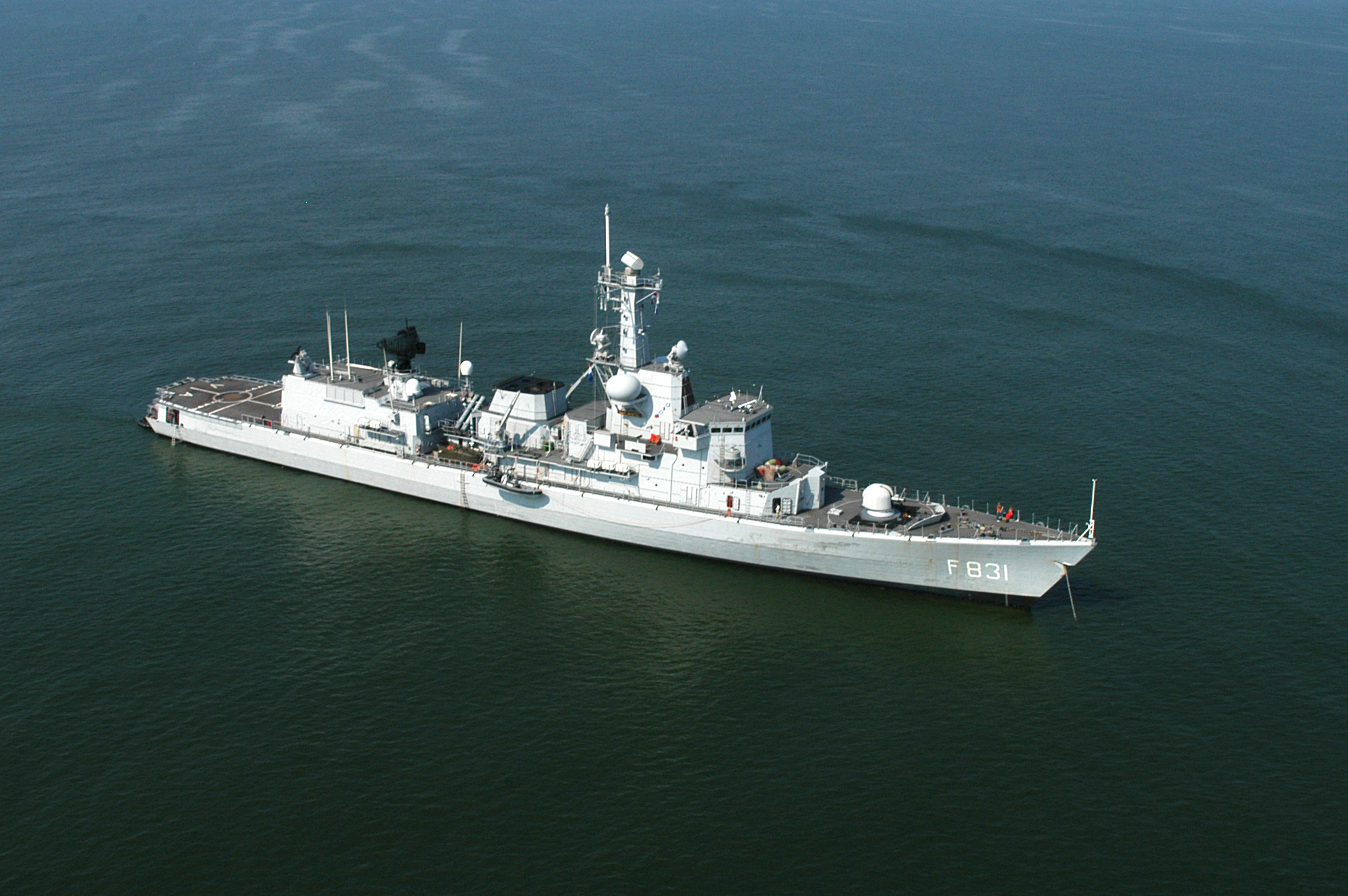 The Dutch frigate HMS Van Amstel (F-831) sits anchored off the Mississippi coast, while assisting with Hurricane Katrina relief efforts along the Gulf Coast.